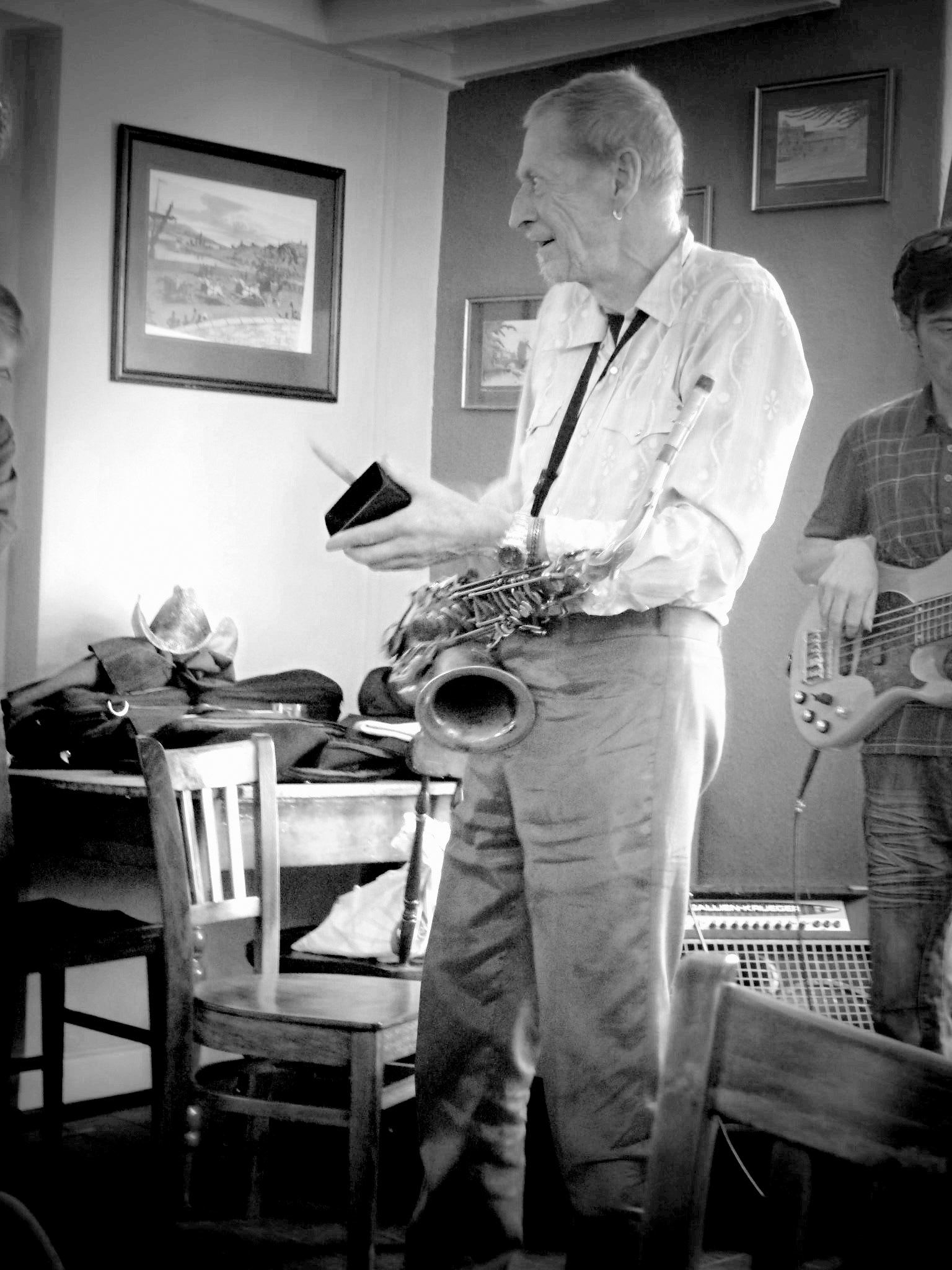 Nik Turner playing at the bulls head brecon fringe 2010.